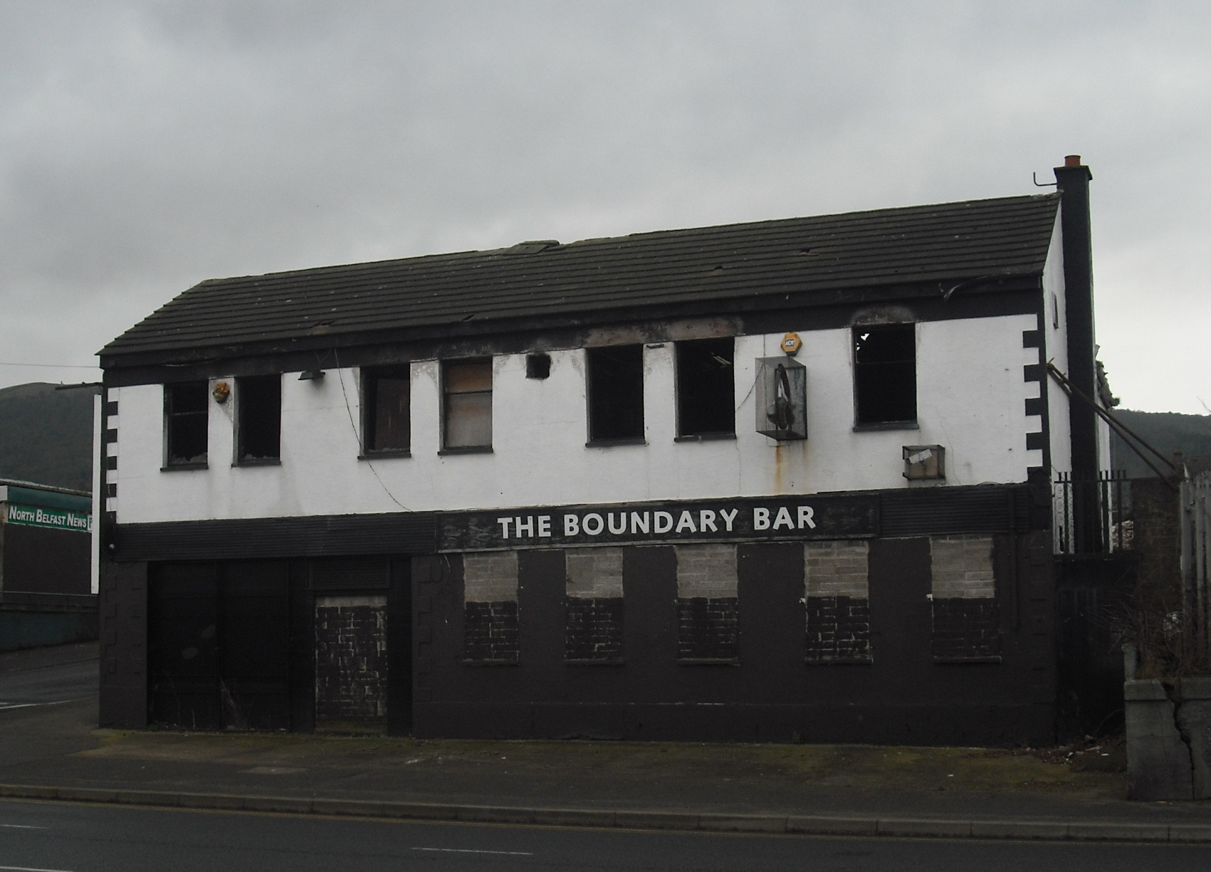 The now abandoned Boundary Bar, Shore Road, Newtownabbey